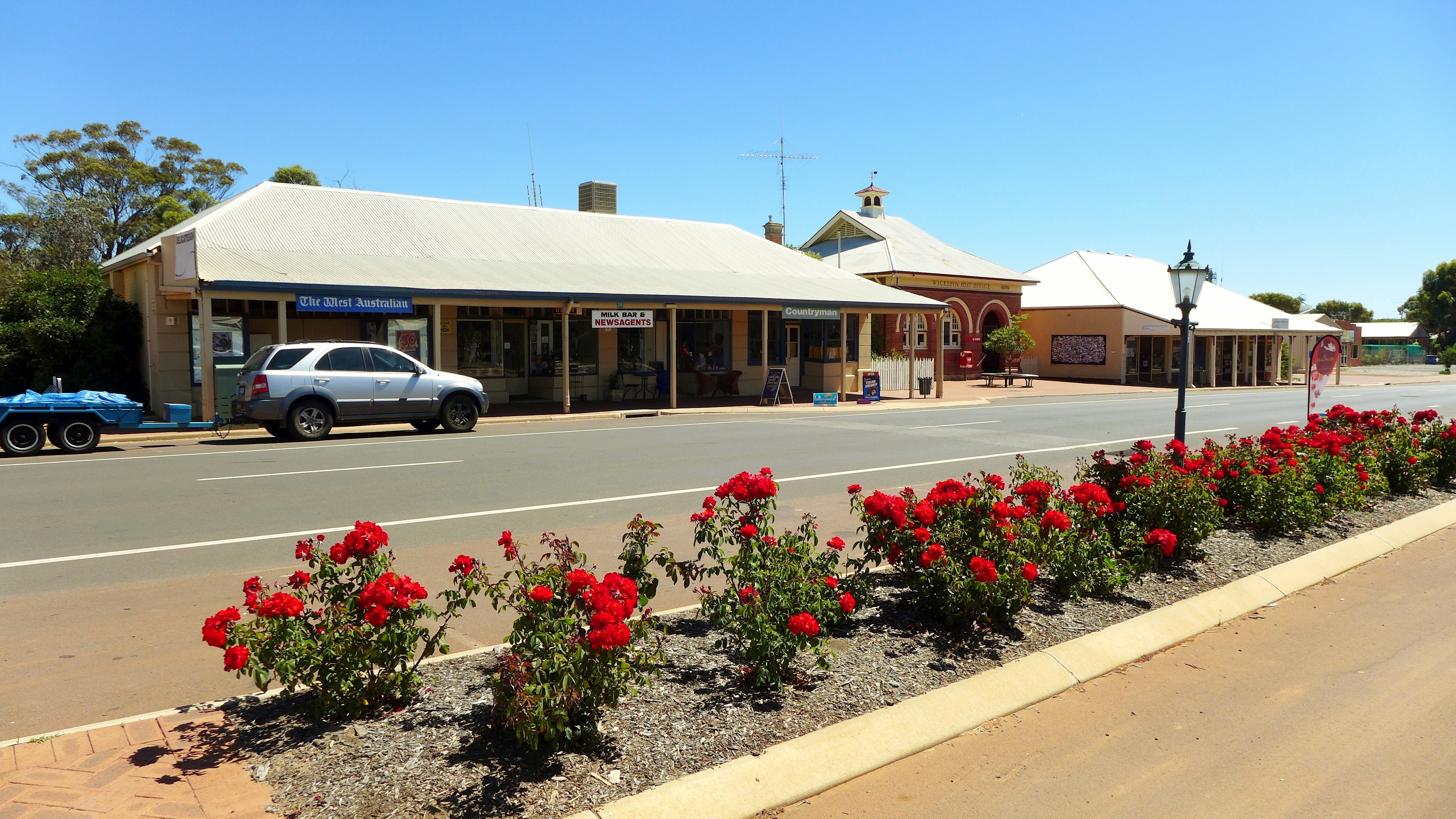 View of Wogolin Road, Wickepin, Western Australia, featuring (L-R) shops, the Wickepin Post Office, and the Wickepin Community Resource Centre.